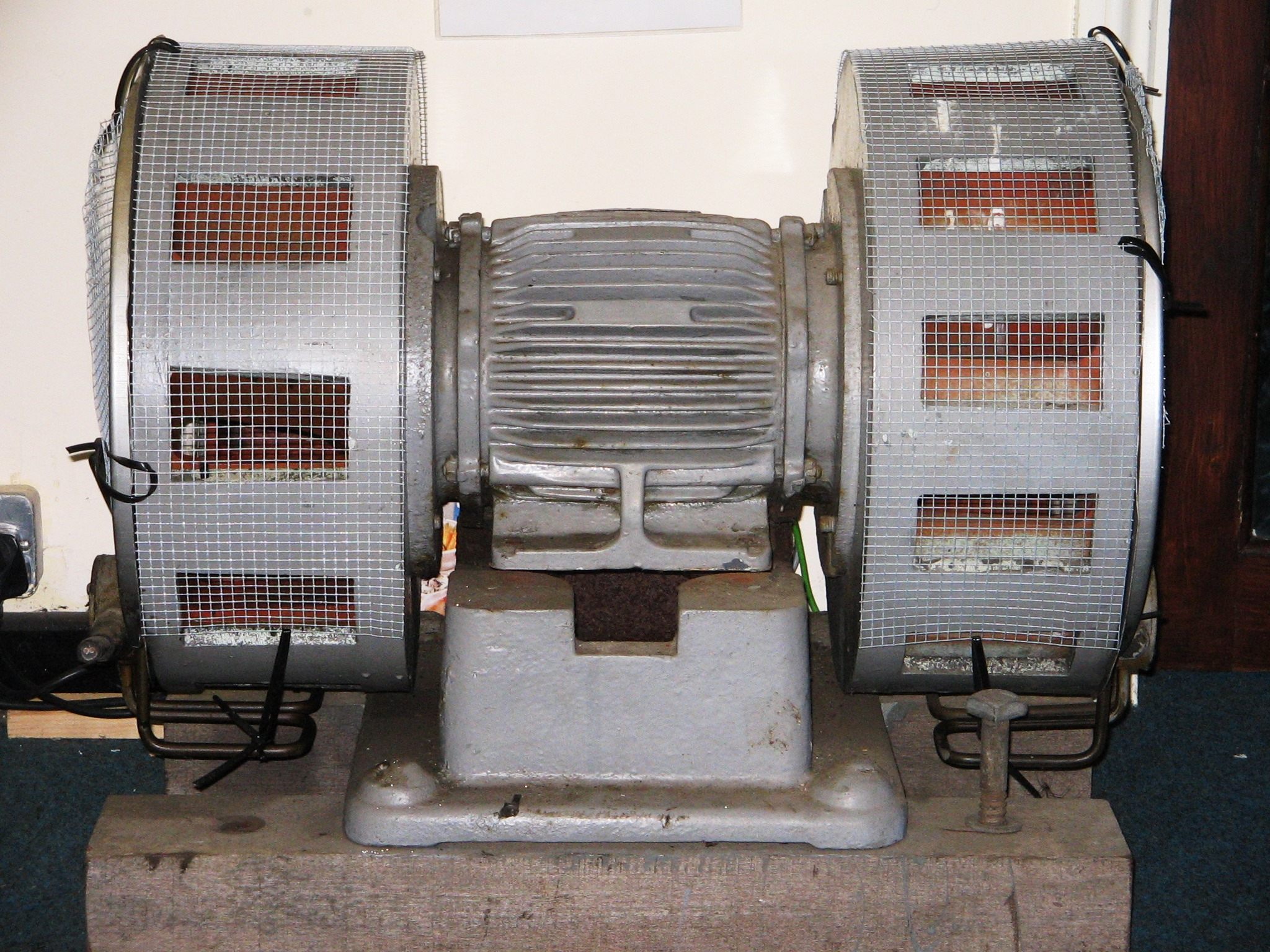 A WWII air raid siren, now housed in the Lowestoft War Memorial Museum